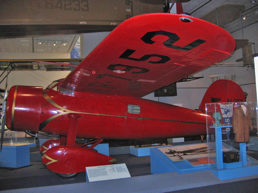 This red Lockheed Vega 5b was flown by Amelia Earhart. On display at the National Air and Space Museum in Washington, DC. This image has been released under GFDL with authors permission.